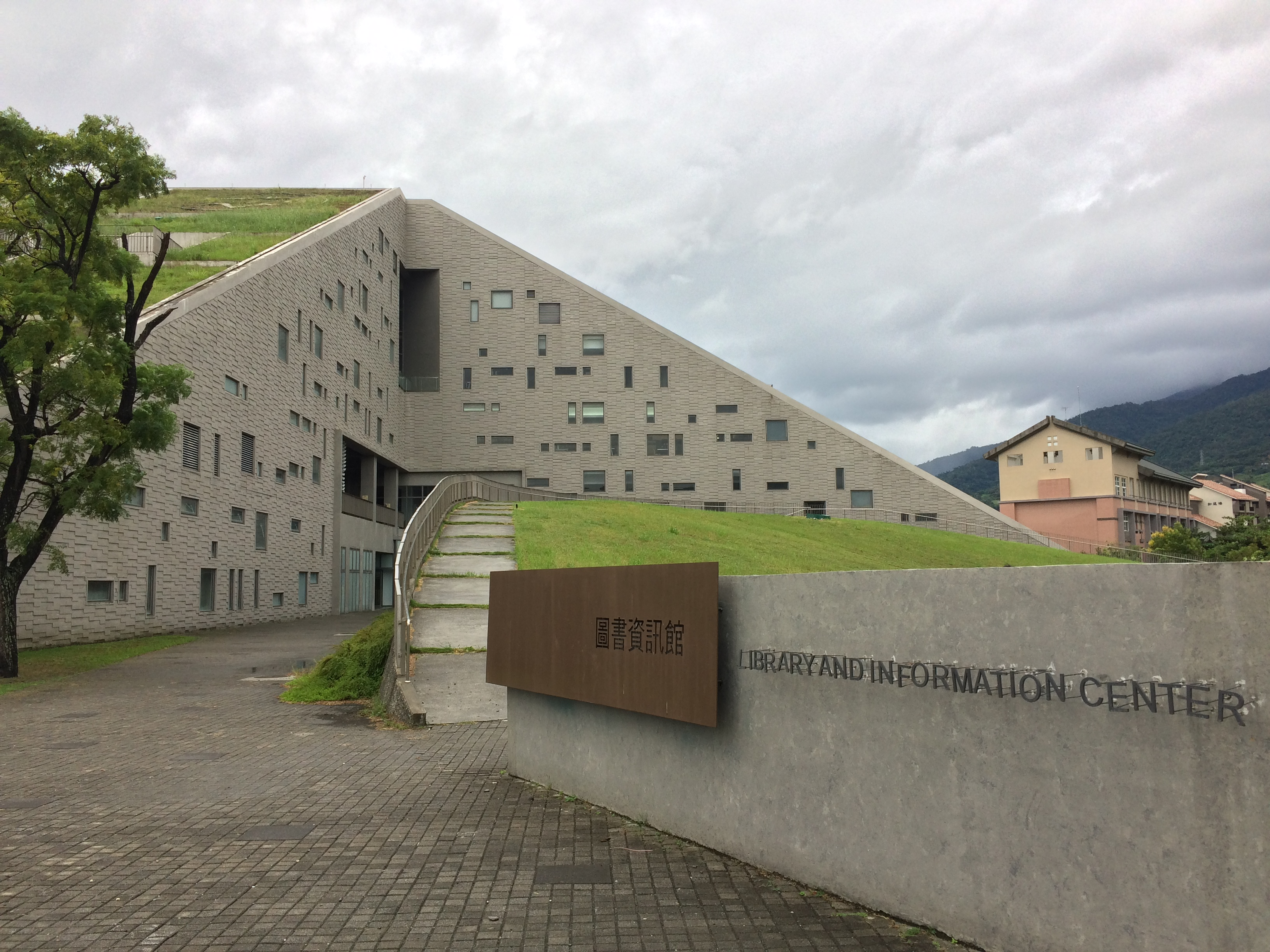 Taitung University Library entrance sign.